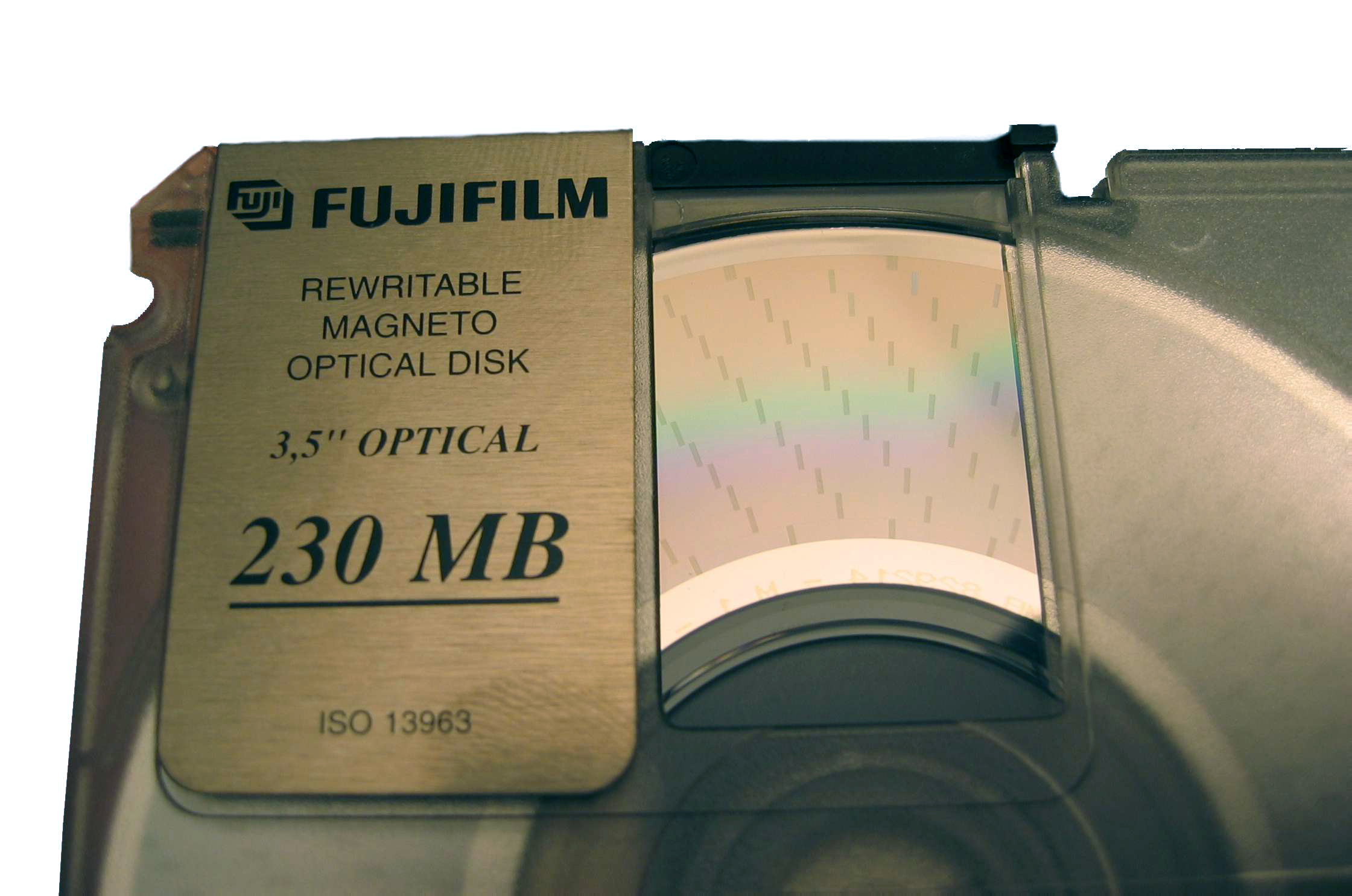 A Magneto-optical disc and its numerous rectangles on its surface.